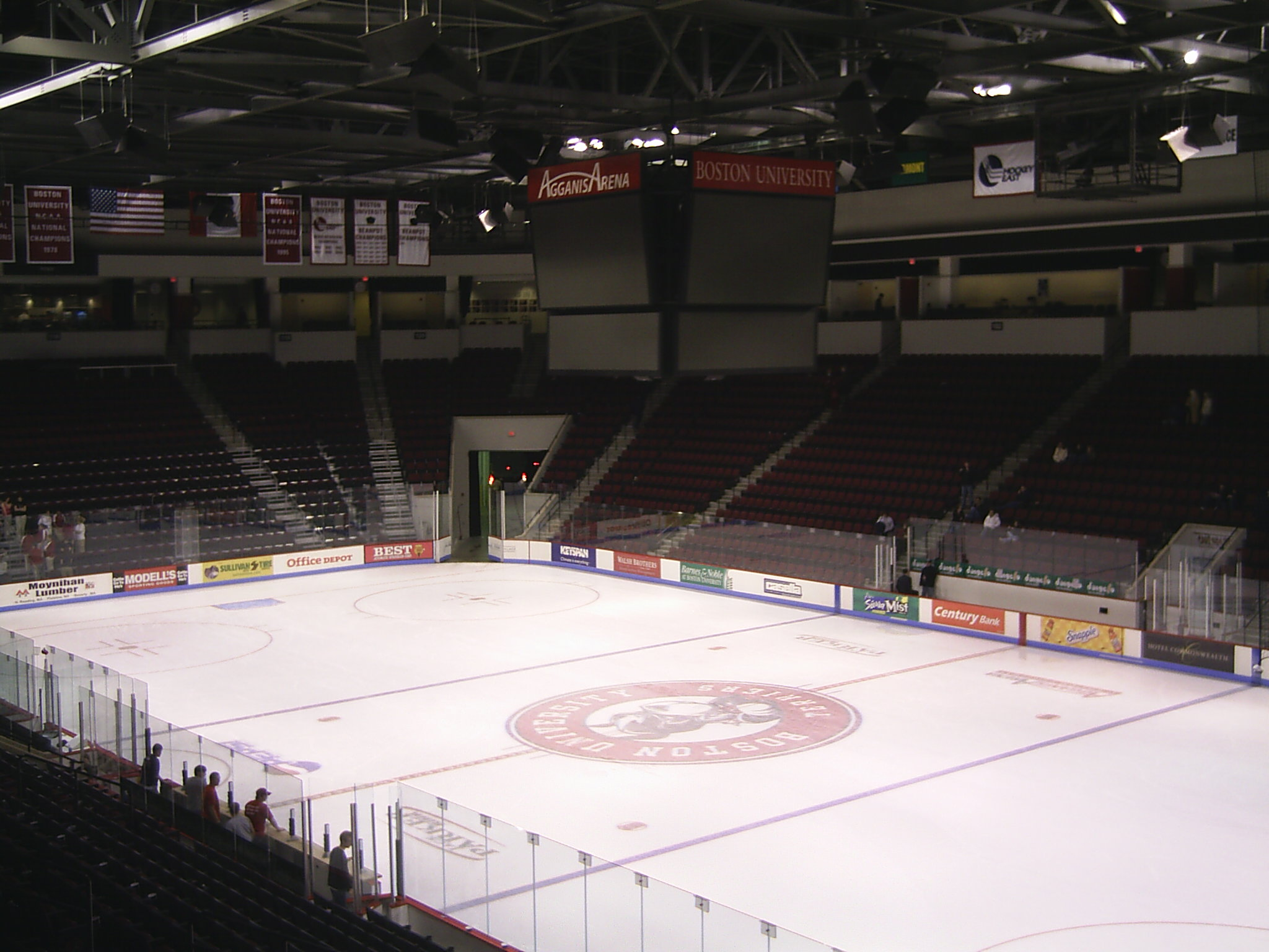 After a BU hockey game